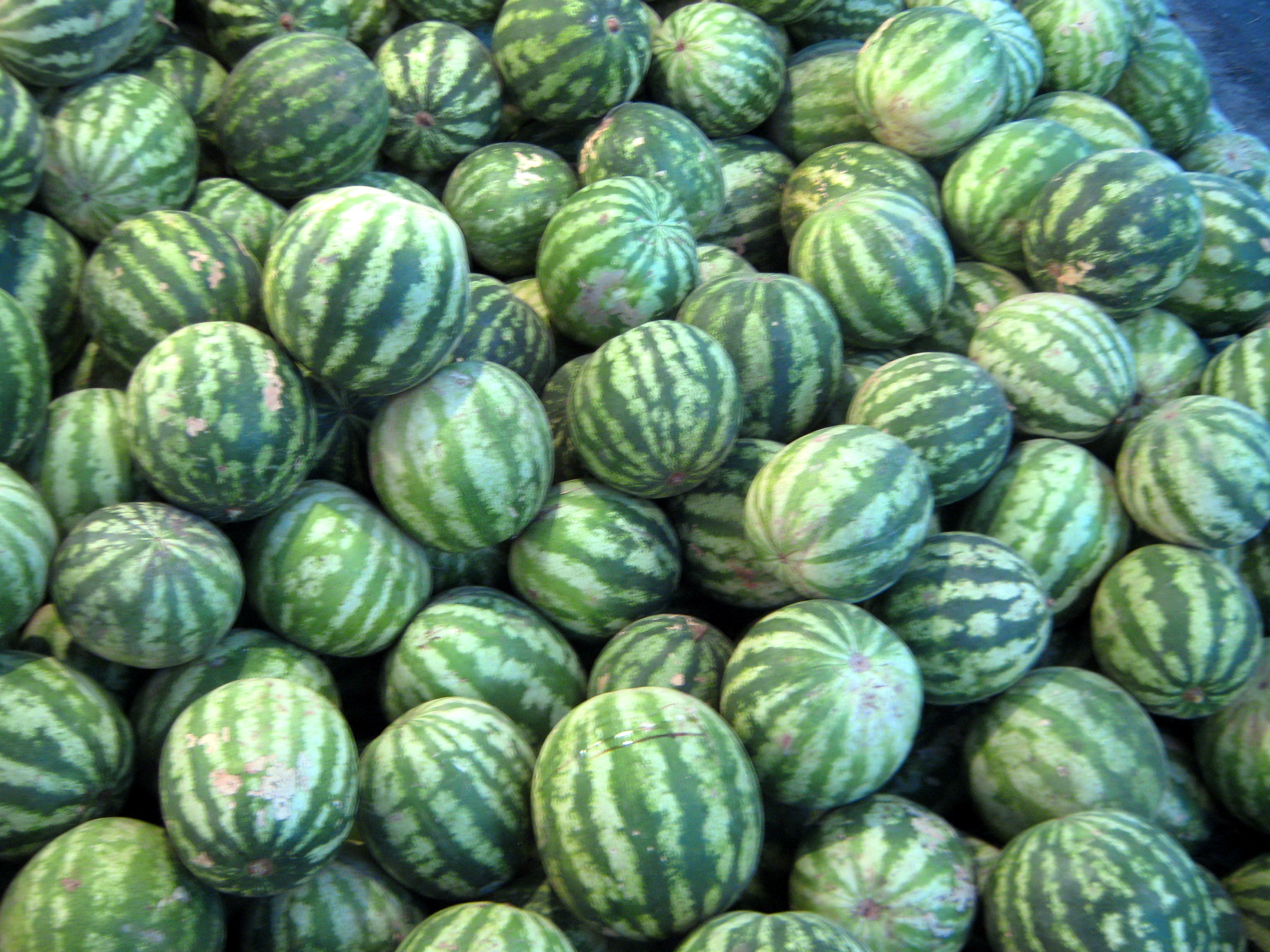 Watermelon - Fruit Bazaar - near Besat sq - Nishapur